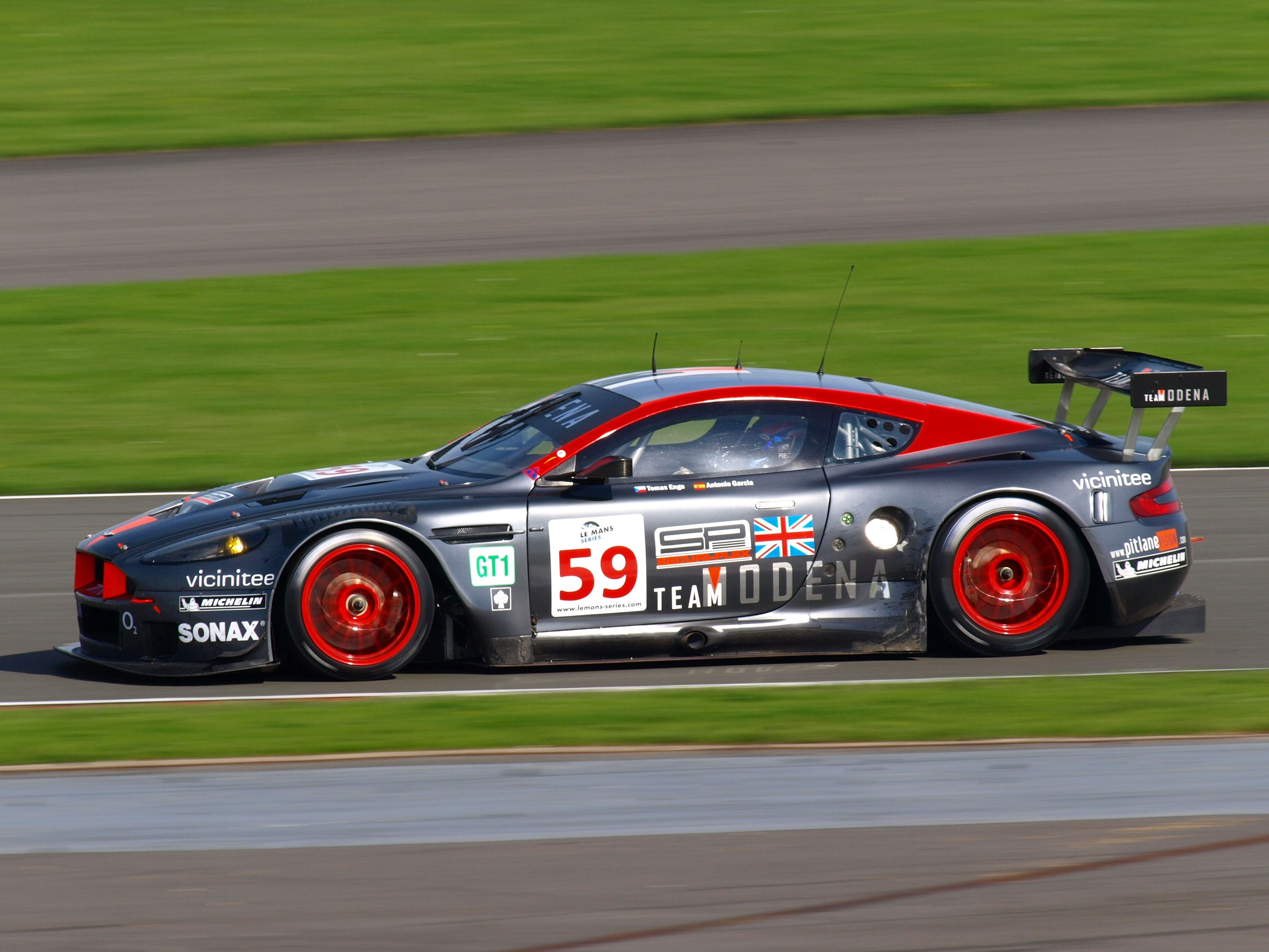 Tomáš Enge Team driving Modena's Aston Martin DBR9 at the 2008 1000km of Silverstone.